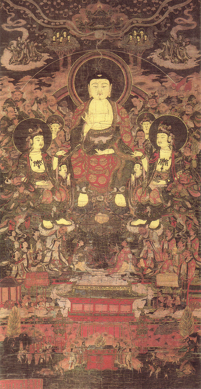 Illustration of Maitreyavyakarana-sutra which is on of the Goryeo Buddhist paintings.